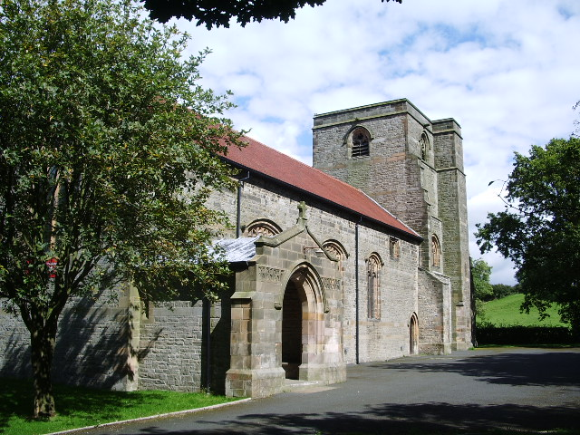 South side of St John the Evangelist's parish church, Ellel, Lancashire, seen from the west